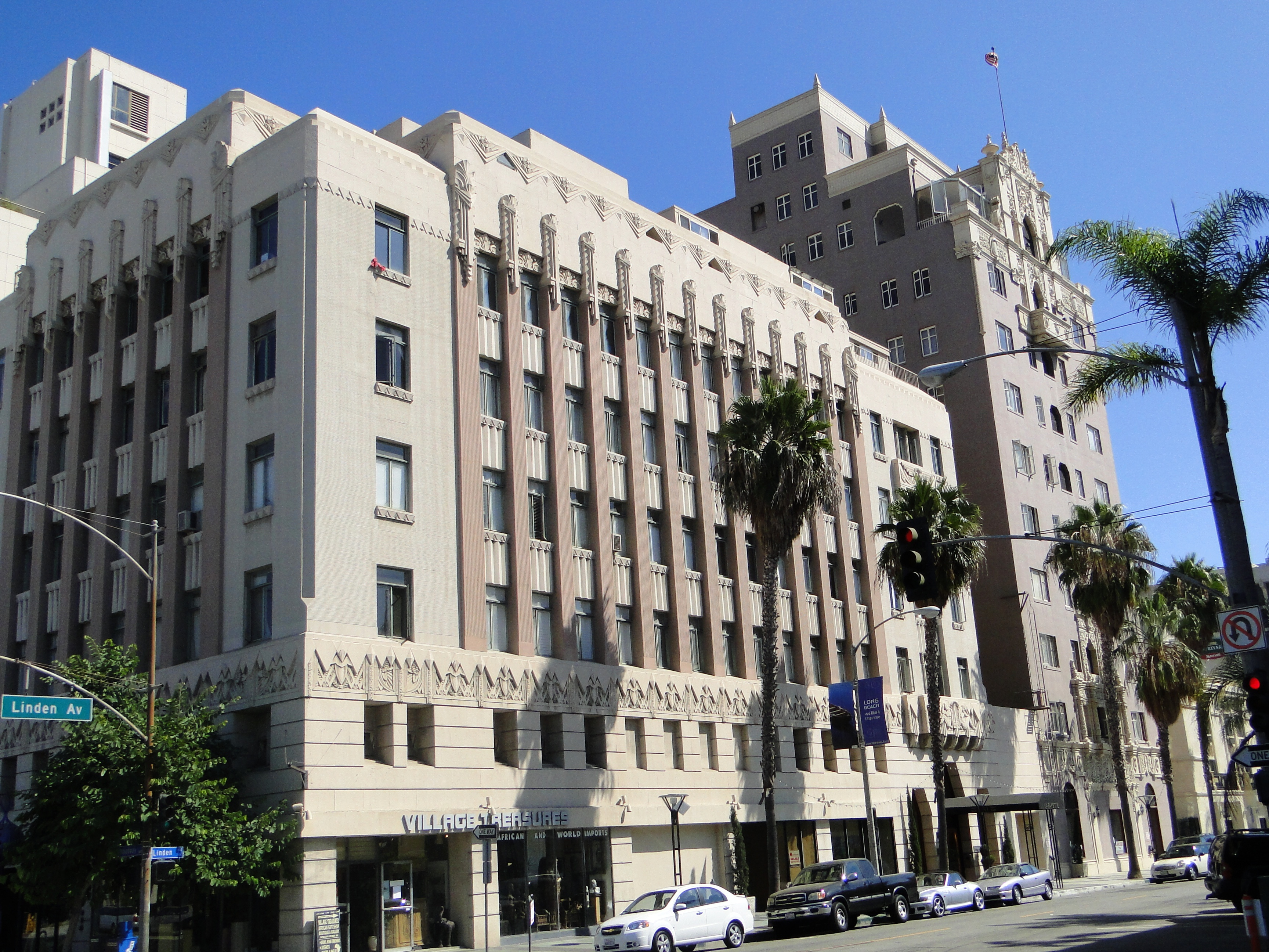 Lafayette Complex, 130-140 Linden Ave., Long Beach, California (Long Beach Historic Landmark 16.52.270)